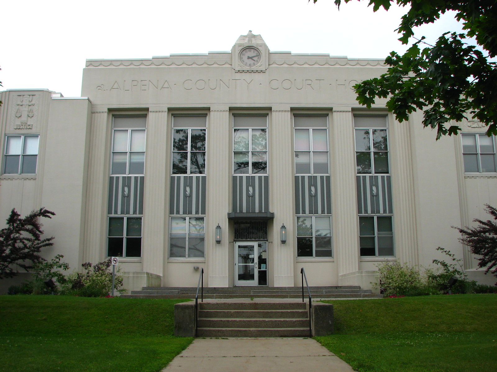 The Alpena County Courthouse at 720 Chisholm Avenue in Alpena, Michigan, United States, is listed on the US National Register of Historic Places.